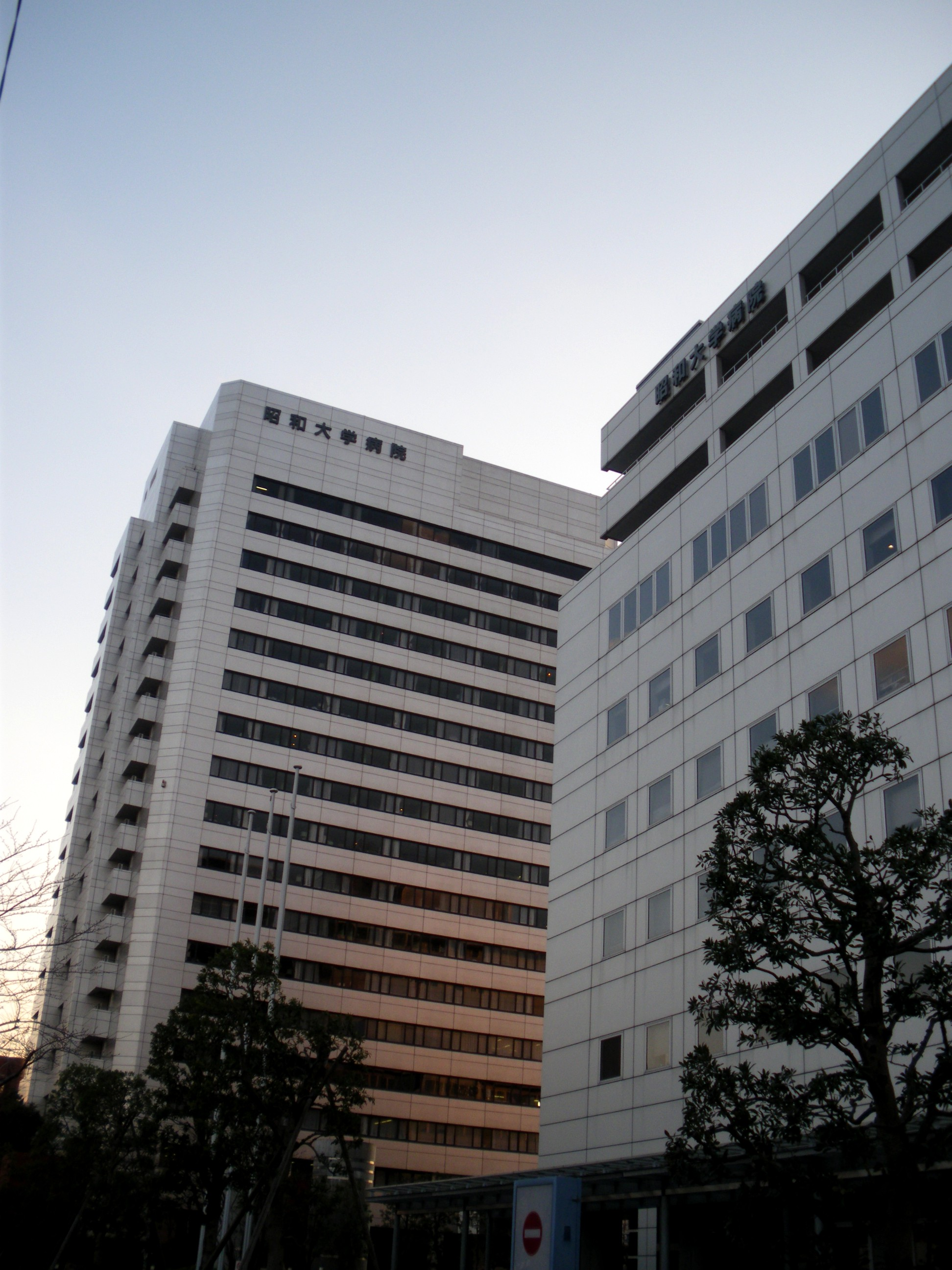 Photo of Showa University Hospital,Hatanodai Shinagawa-ku,Tokyo,Japan.